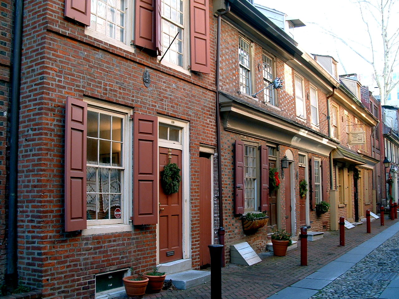 Historic Elfreth's Alley homes in Philadelphia, Pennsylvania, dressed up for the holidays